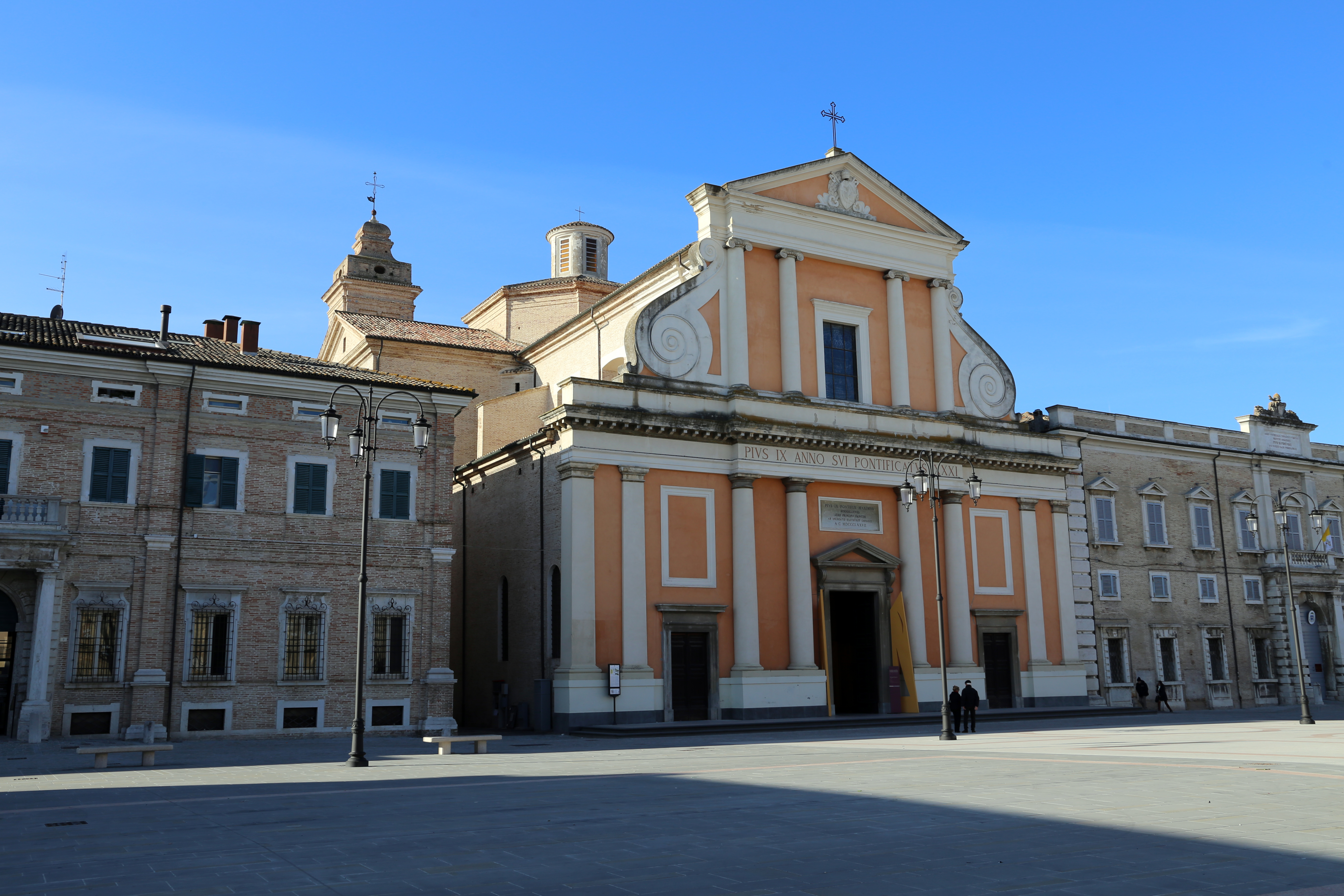 Senigallia